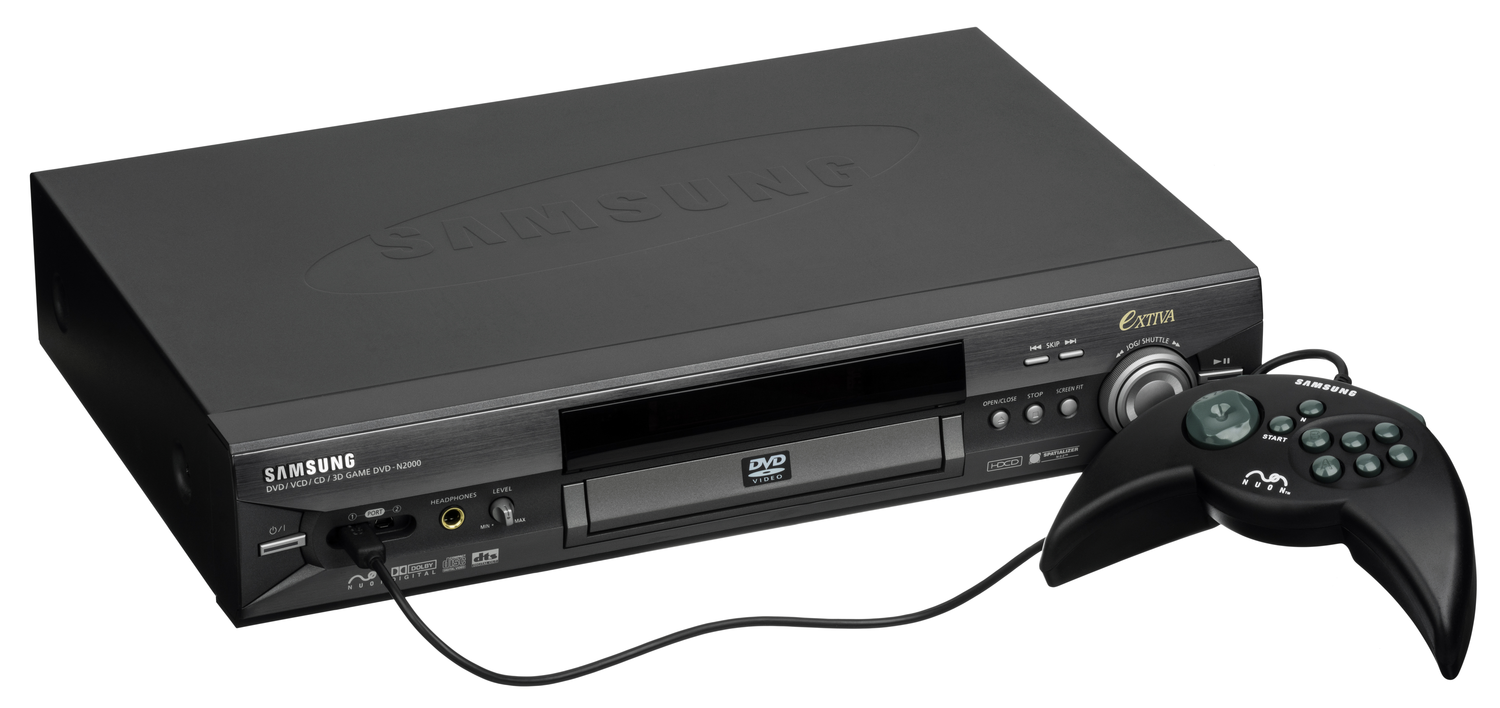 The Samsung N2000 DVD player, a hybrid gaming system/DVD player that was released in 2000, shown with its pack-in game controller. The N2000 features the Nuon chipset, which made it capable of playing 3D games and offering enhanced DVD playback with select movies. The Nuon line of gaming systems/DVD players came in a few models from different manufacturers, but the N2000 was the first to the market and also came bundled with a controller. Very few games were released for the platform, until the Nuon chipset was phased out a few years later.